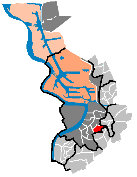 neigborhood of Antwerp (City)